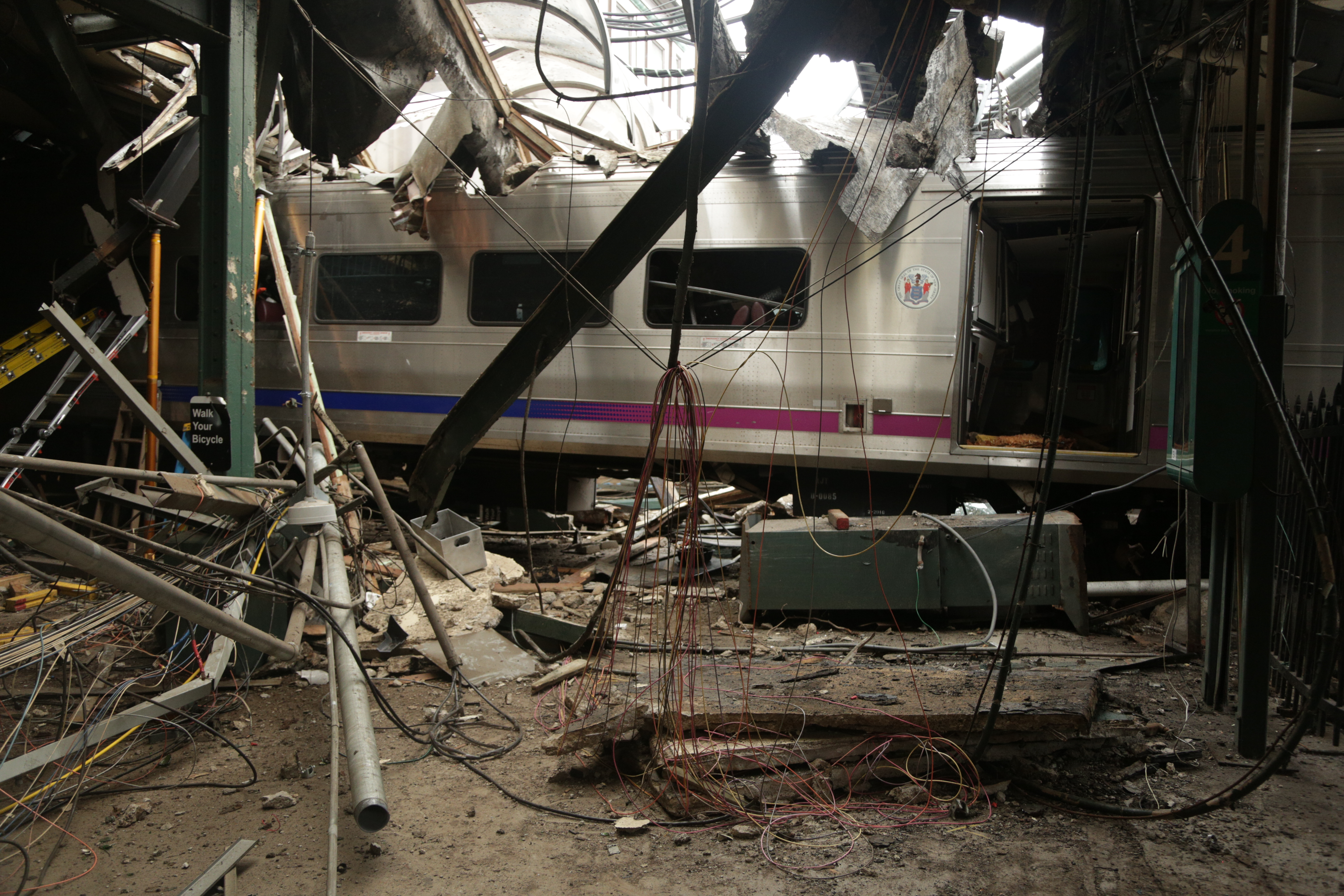 Cab car #6036 in the aftermath of the 2016 Hoboken crash